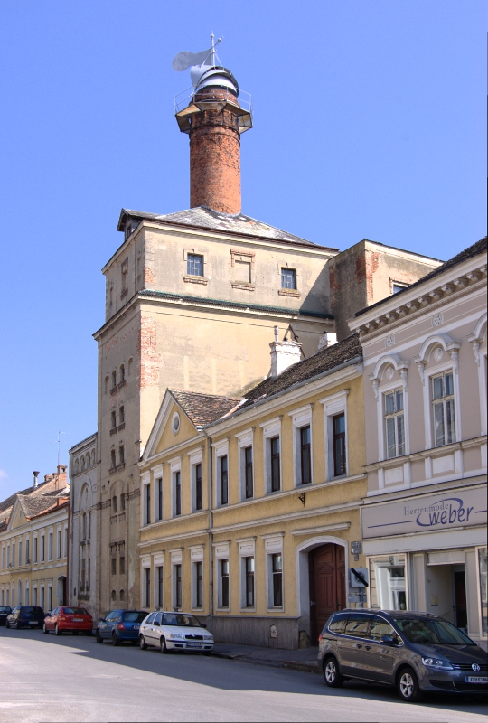 Hubertus-Bräu brewery Laa on the Thaya, old malting facility